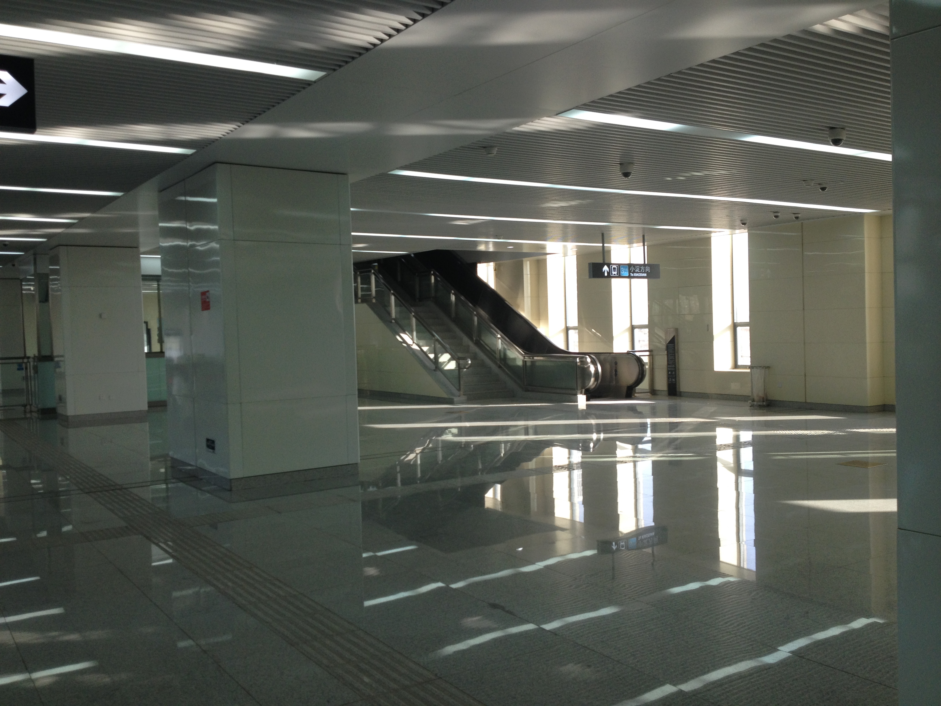 The station hall of Tianjin Metro XUEFUGONGYEQU Station